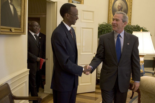 Paul Kagame, President of Rwanda, visiting George W. Bush at the White House, April 2005.